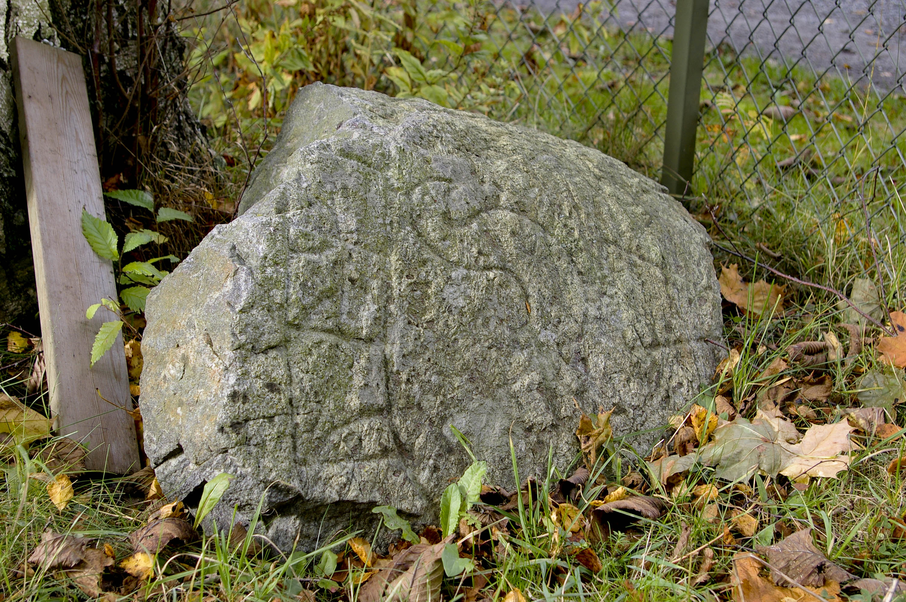 Runestone fragment Sö 245 from Tungelsta